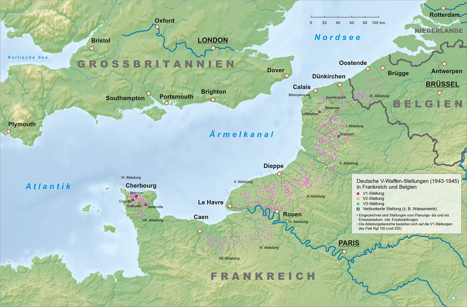 Map of the German V-Weapon sites In France and Belgium. The map includes deployment sites of V-1 V-2 and HDP (V-3).